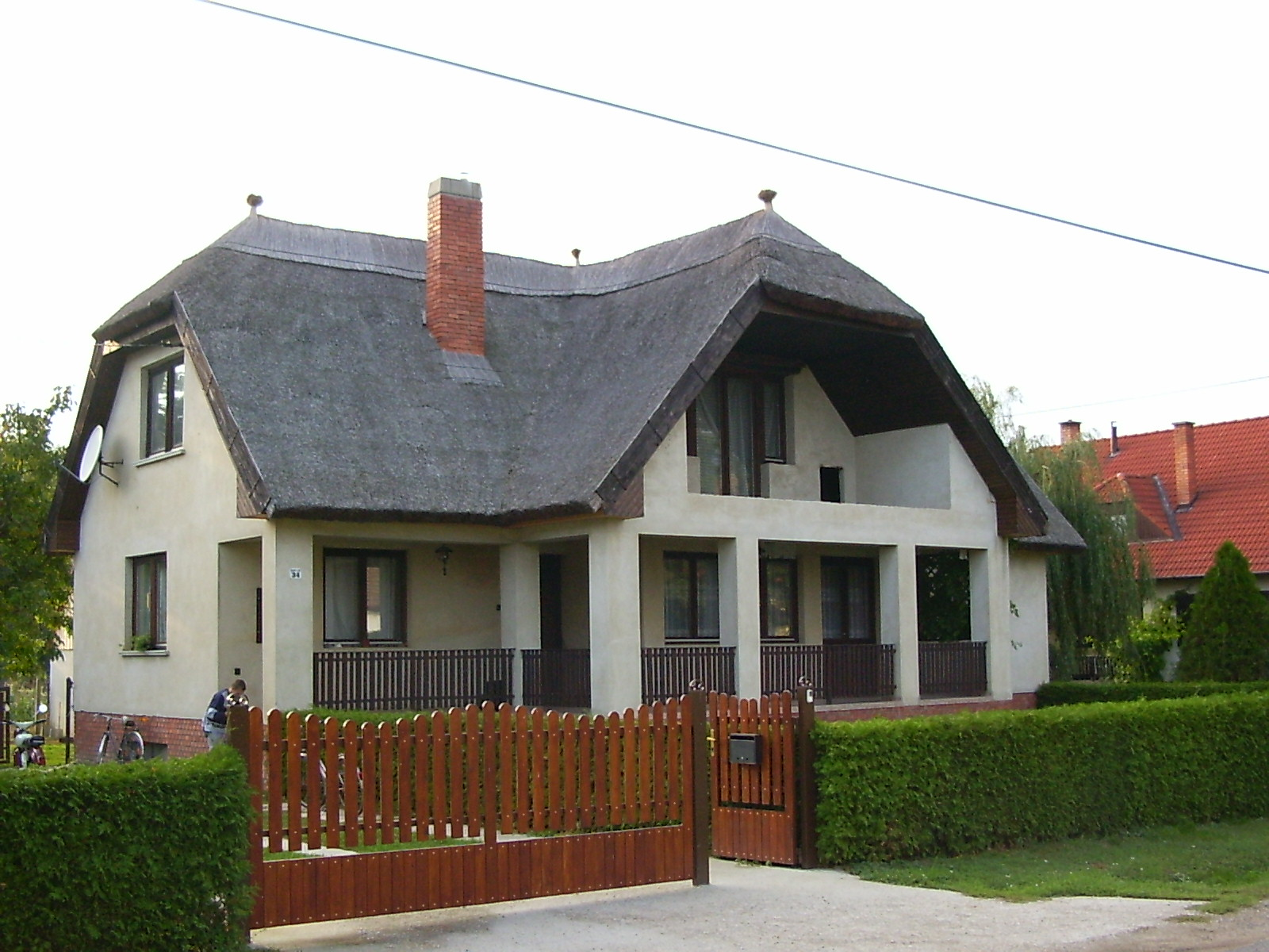 Reed covered home in Kisfalud